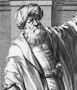 Cropped version of the frontispiece of Johannes Hevelius, Selenographia, depicting Ibn al-Haytham (Alhazen)